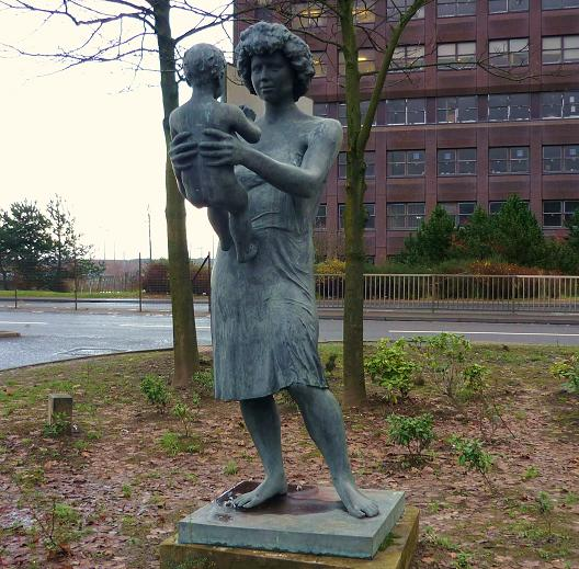 Mother & Child Statue At Cumbernauld Town Centre